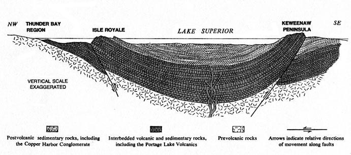 Figure 38, Keweenaw Structure